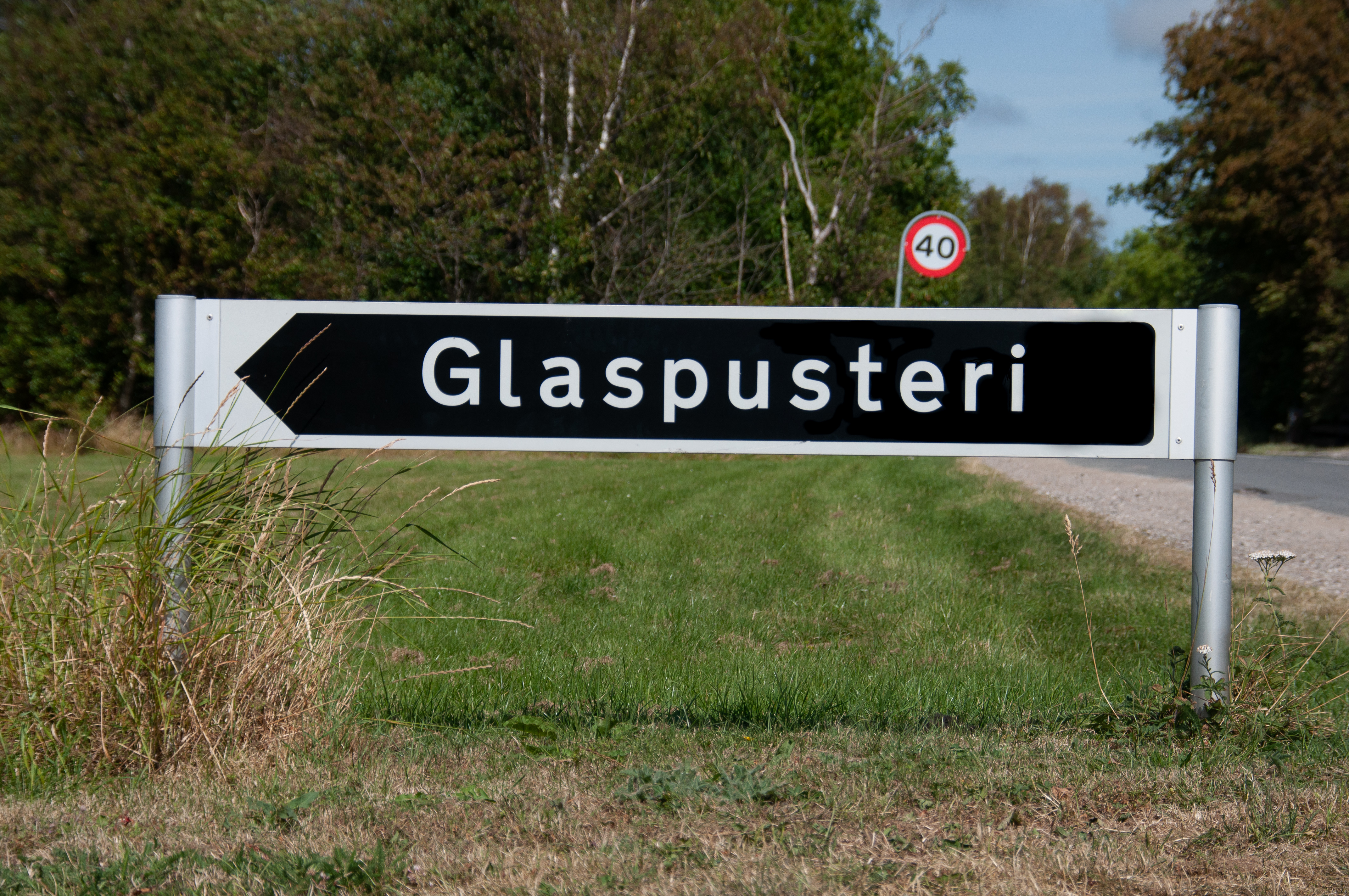 Danish road sign to a glass blowing artist